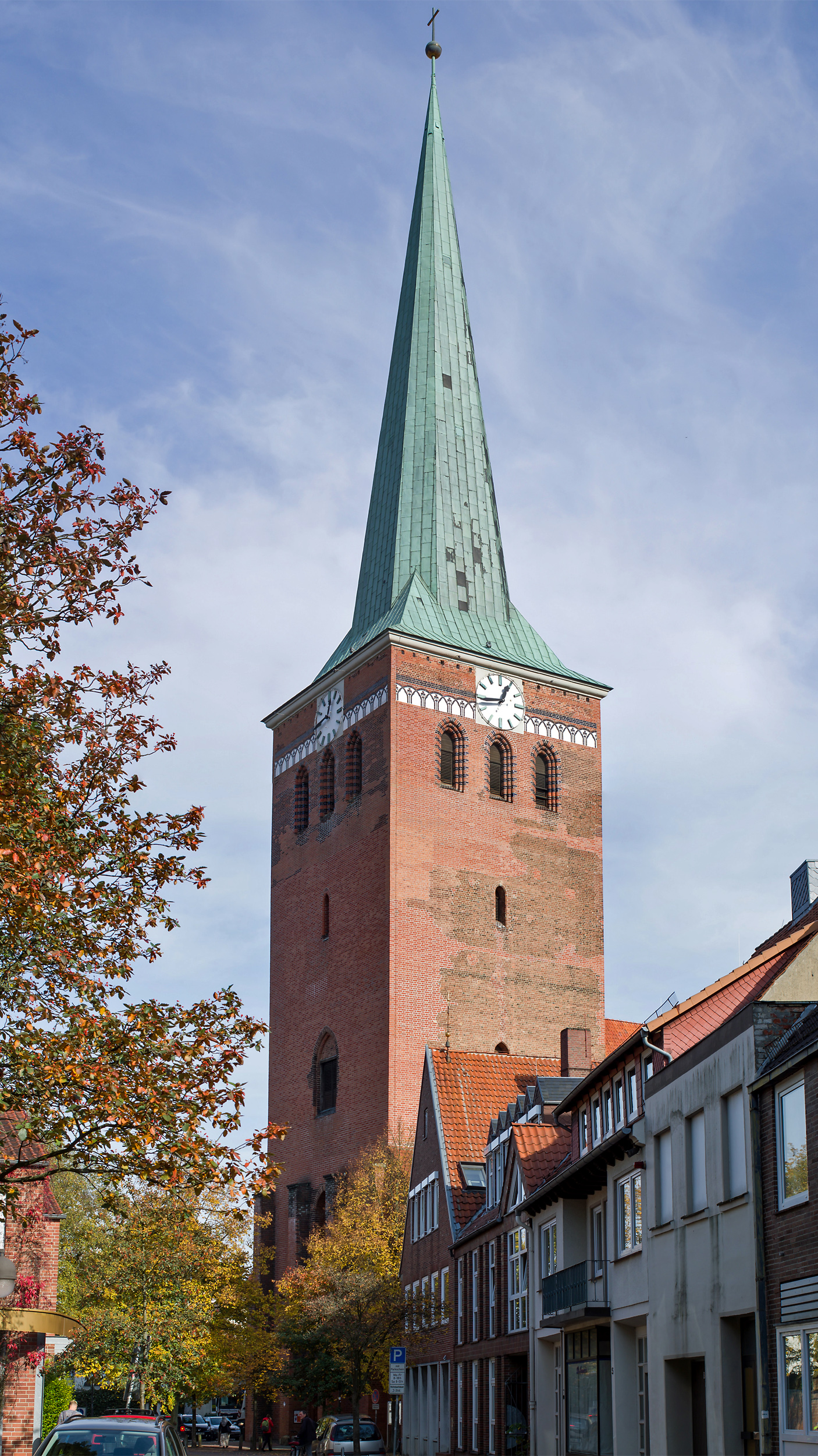 Church St. Mary in the town Uelzen (northern Germany).